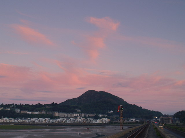 Dawn over Moel-y-gest